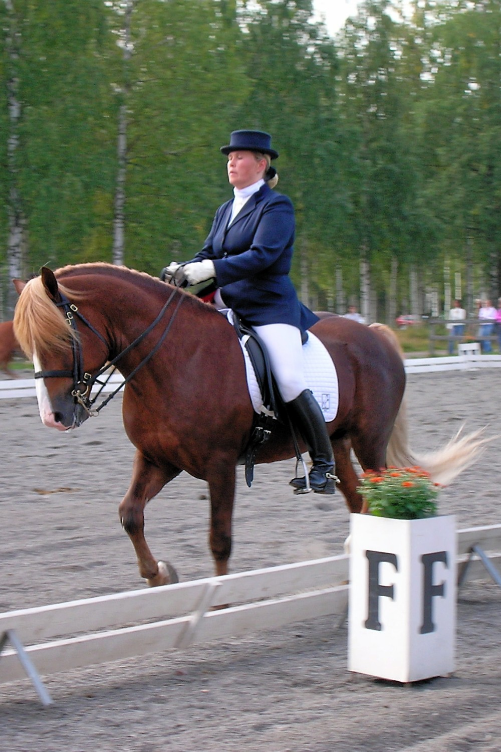 Finnhorse stallion Lorentso